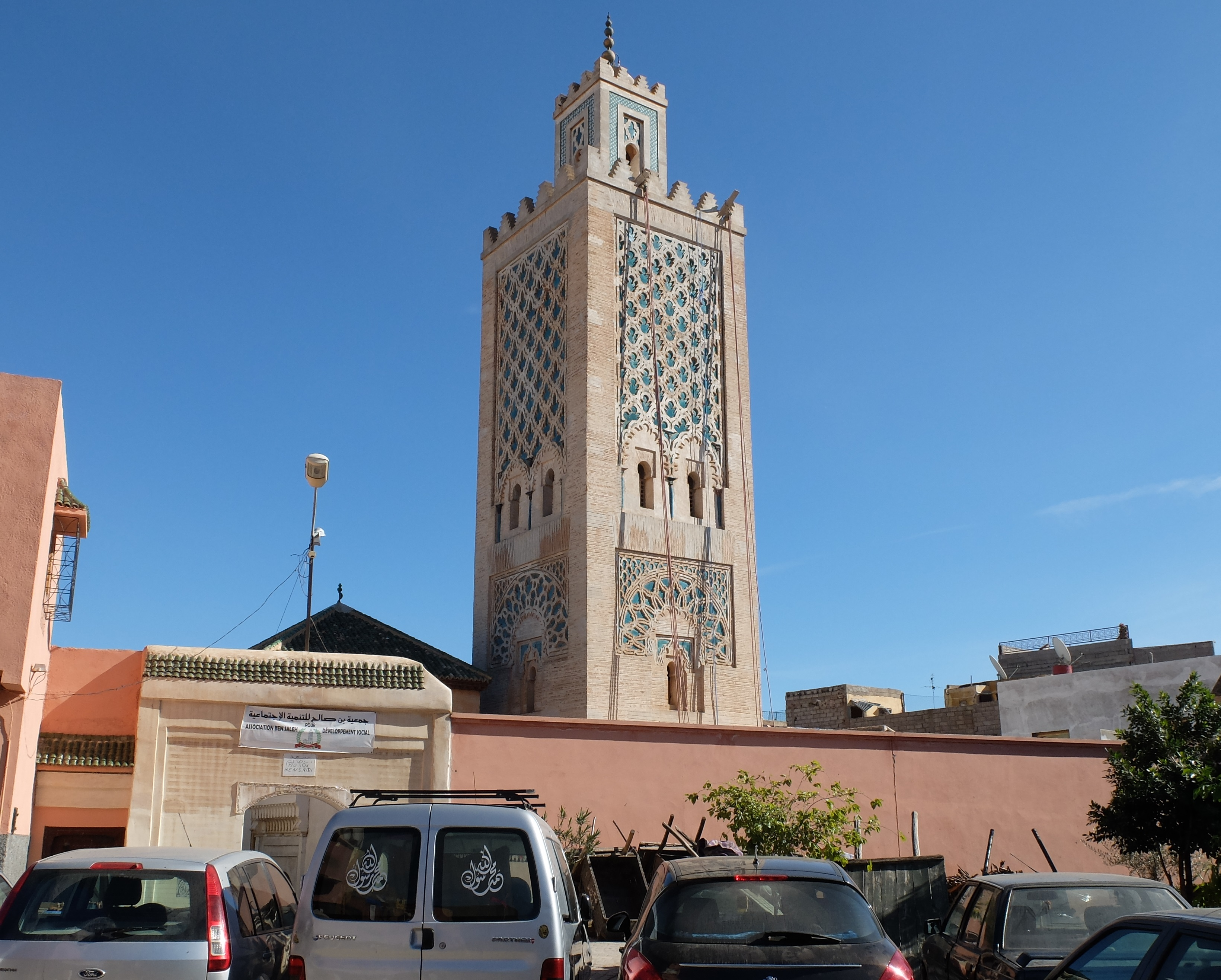 Ben Salah Mosque in Marrakech, Marinid era.